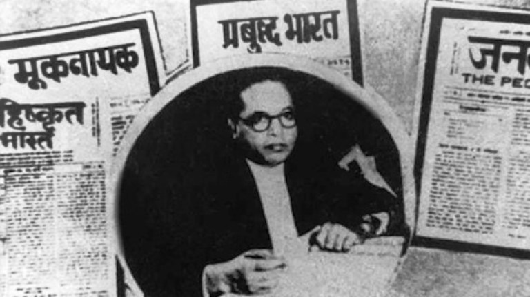 Editor Dr. Babasaheb Ambedkar